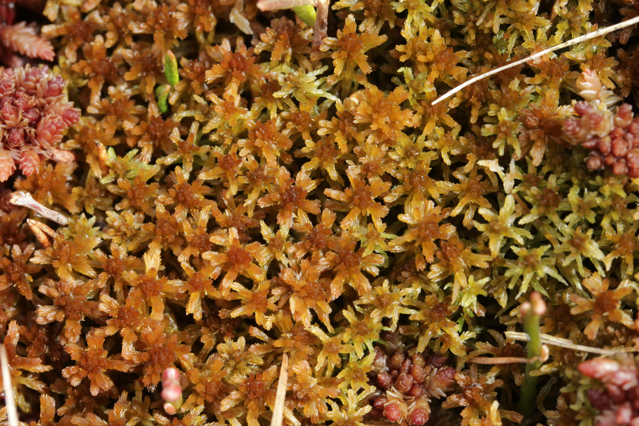 Sphagnum fuscum